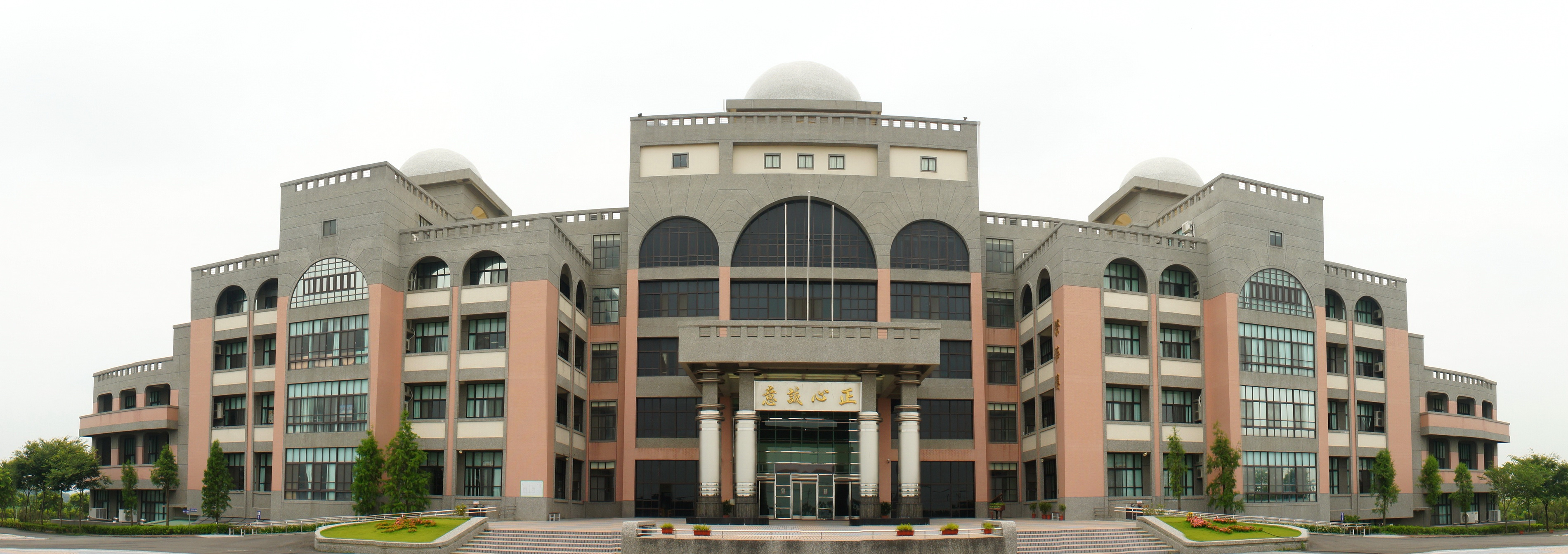 A panoramic photograph of Chung-Jen Junior College of Nursing, Health Science and Management (Dalin Campus), Taiwan.